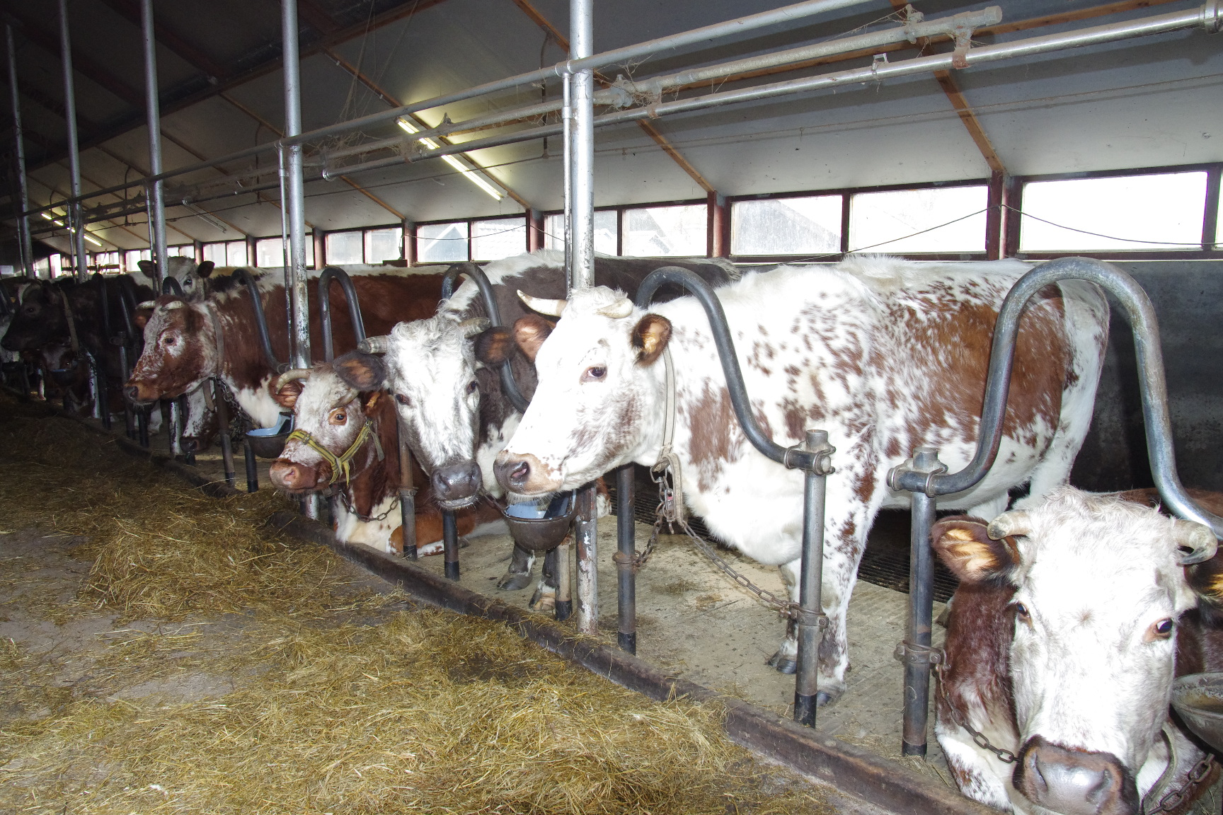 The cows are Witrikken